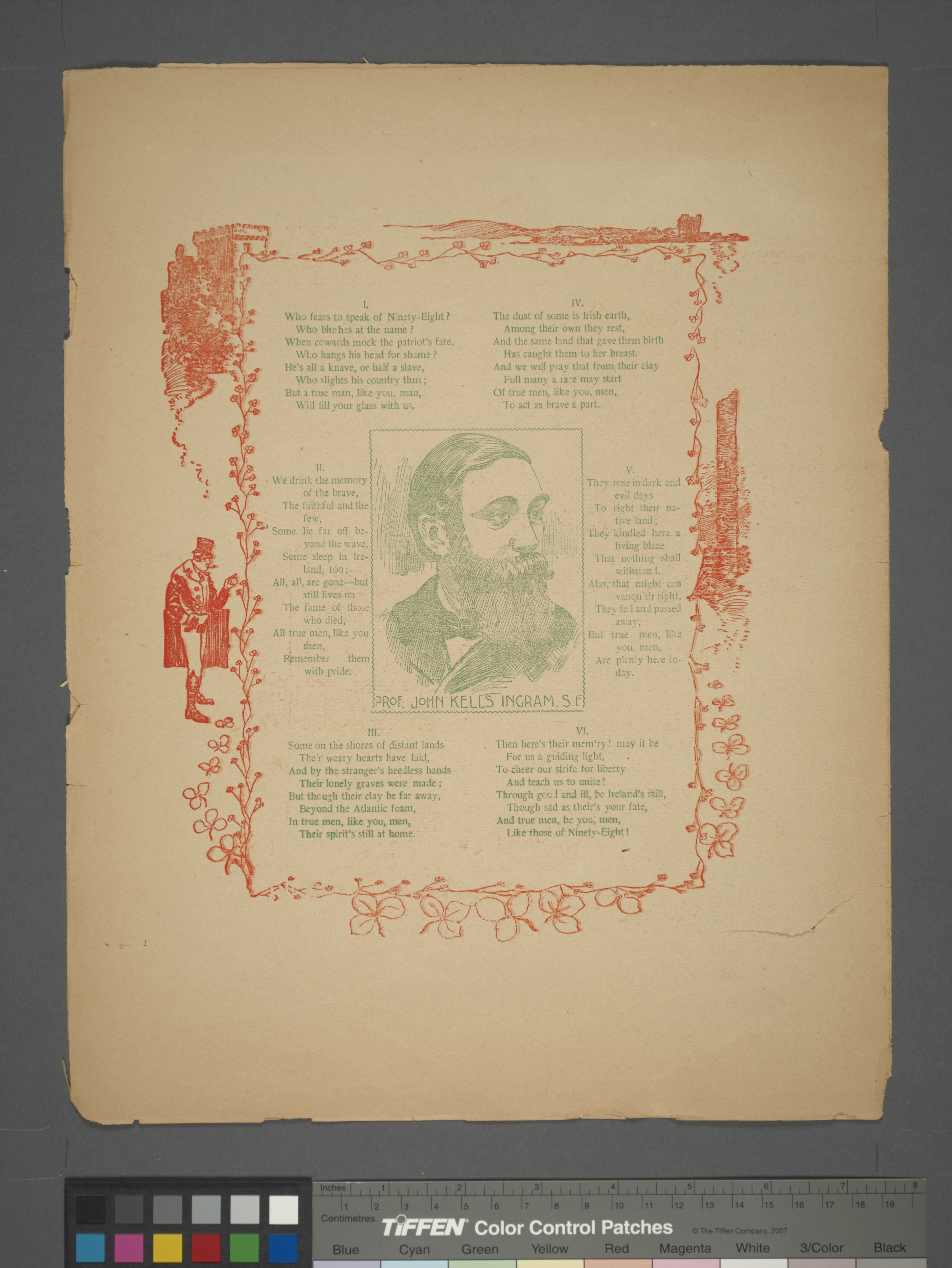 On cover: Chas. Stewart Parnell; Robert Emmet; three-leafed shamrock. Supplement to the Sunday World, Sunday, March 13, 1898. Statement of responsibility : words by P.J. Sweeney ; music by J.A.T. Noble.